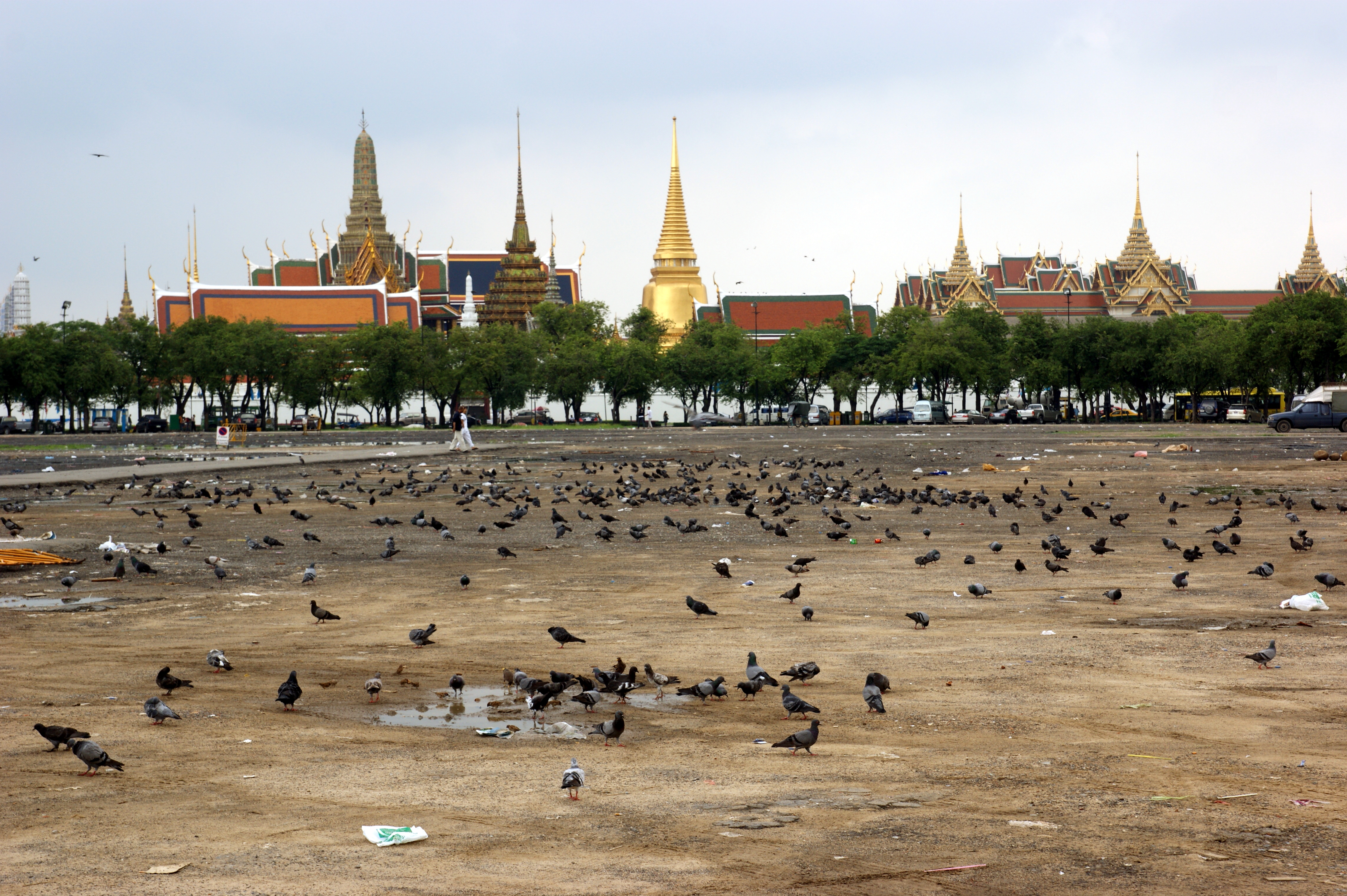 Sanam Luang in Bangkok, Thailand Original title: 2009-08-28 08-30 Bangkok 131 Sanam Luang